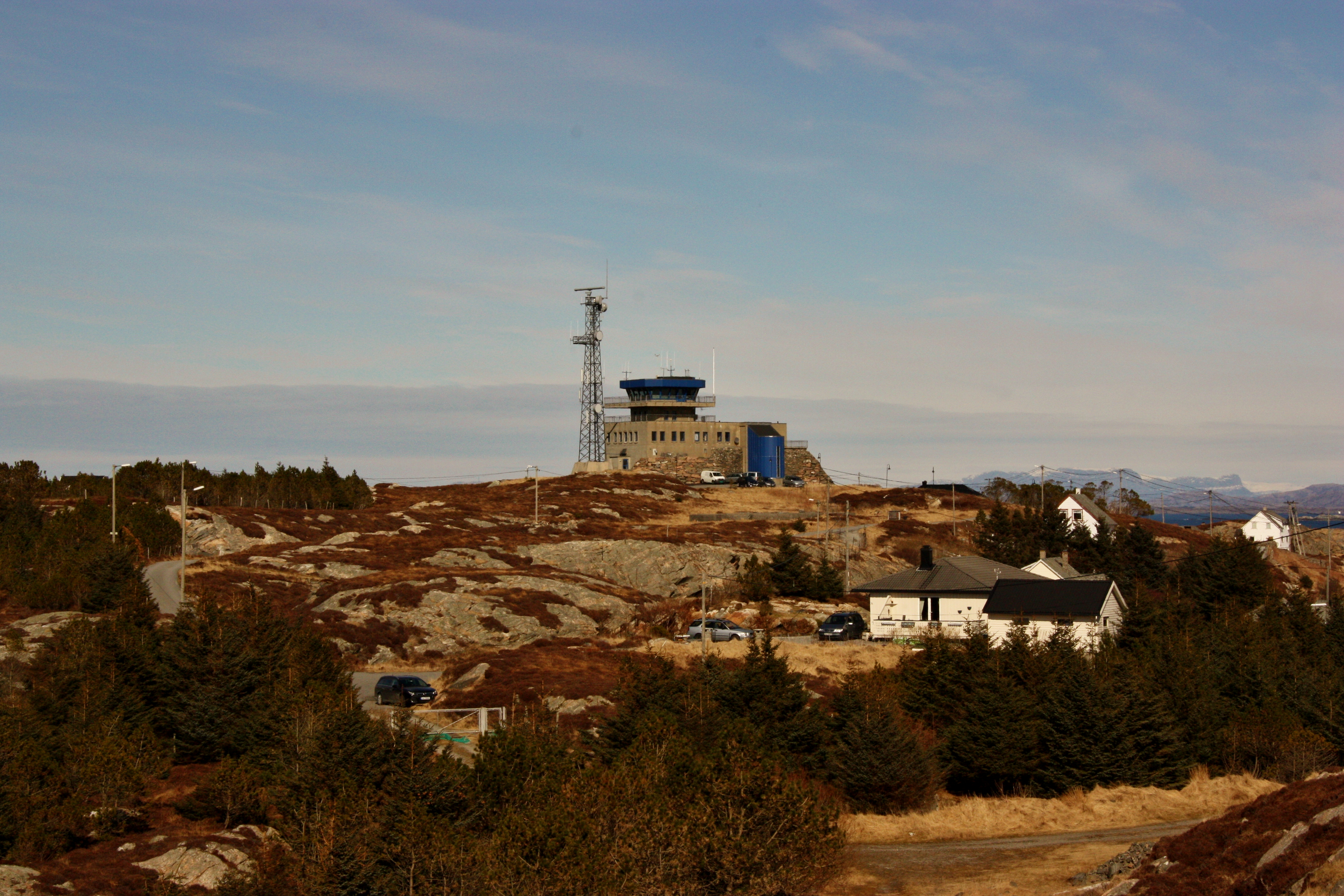 Fedje trafikksentral seen from Vinappen